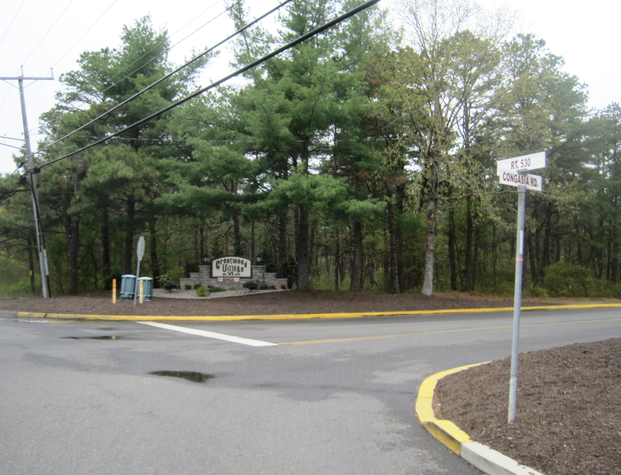 Photo showing the entrance to Crestwood Village, New Jersey, a census designated place in Manchester Township. Photo taken at the intersection of County Route 530 and Congasia Road.